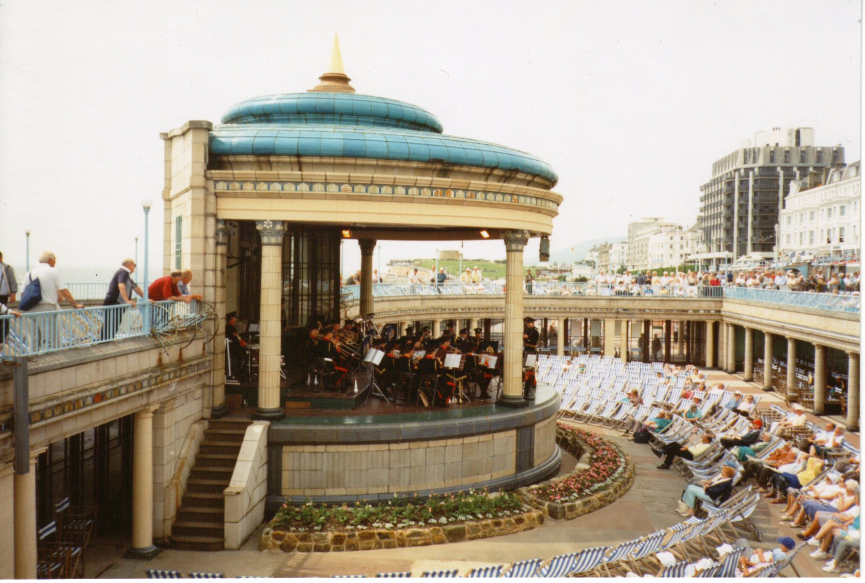 Bandstand on the sea front at Eastbourne